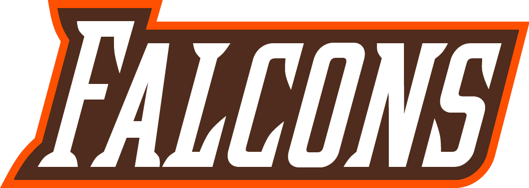 Wordmark for the Bowling Green State Falcons